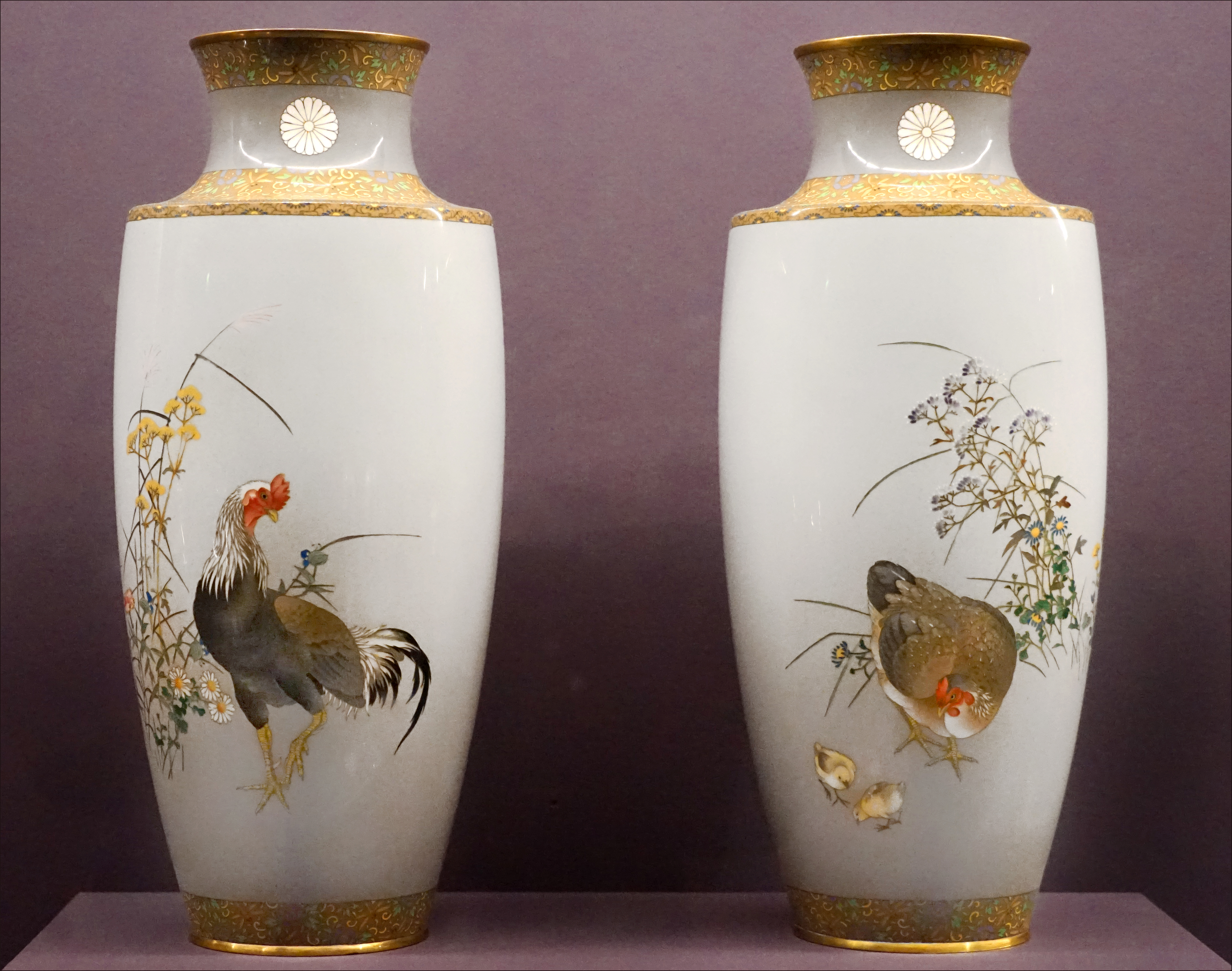 Japanese vases from the Khalili Collection, exhibited in the "Meiji: Splendours of Imperial Japan" at the Guimet Museum of Asian Art